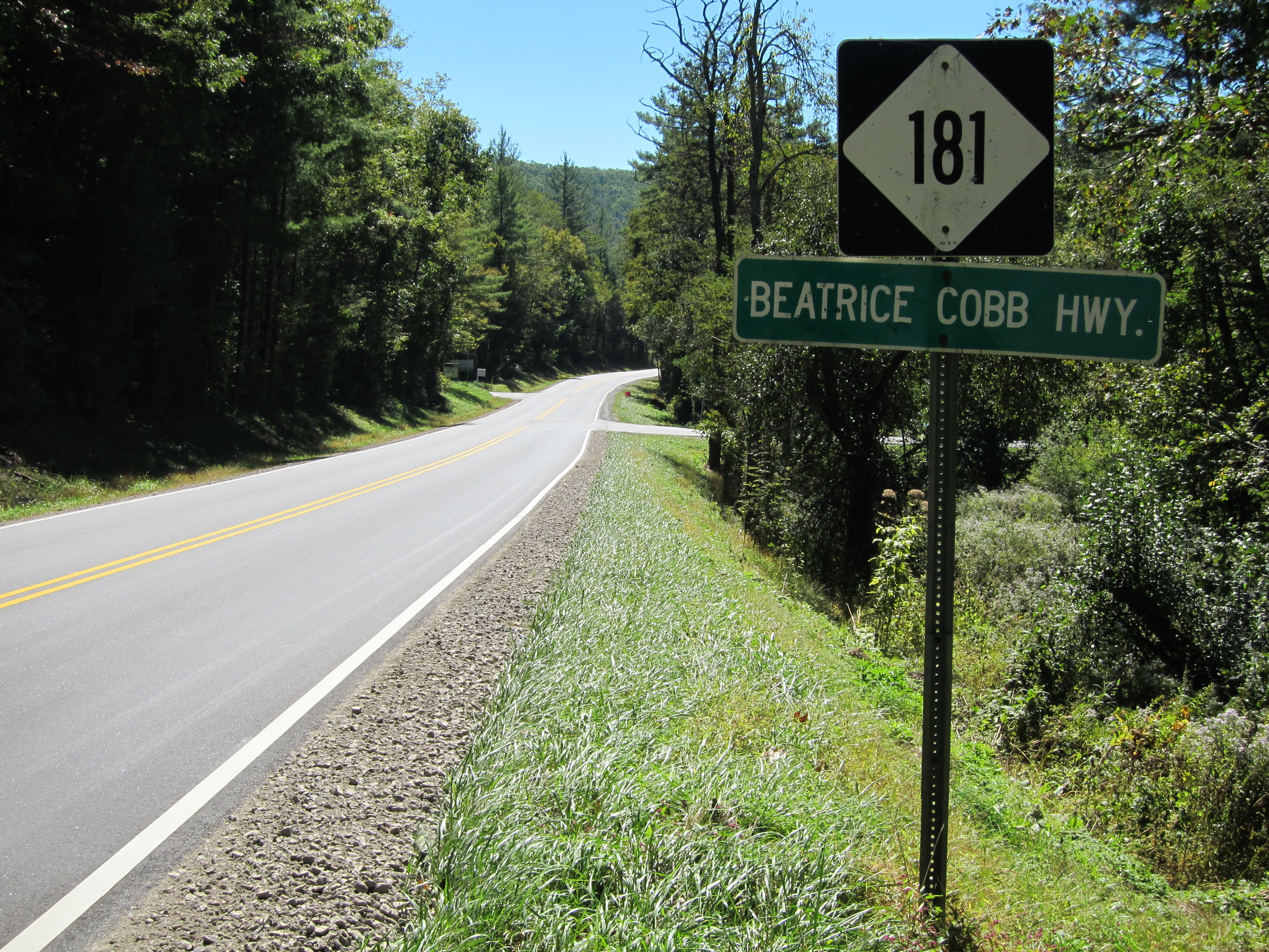 NC 181 sign with additional "Beatrice Cobb Highway" sign attached. Picture taken just south of the Burke/Avery county border.